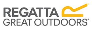 Logo for Regatta Clothing